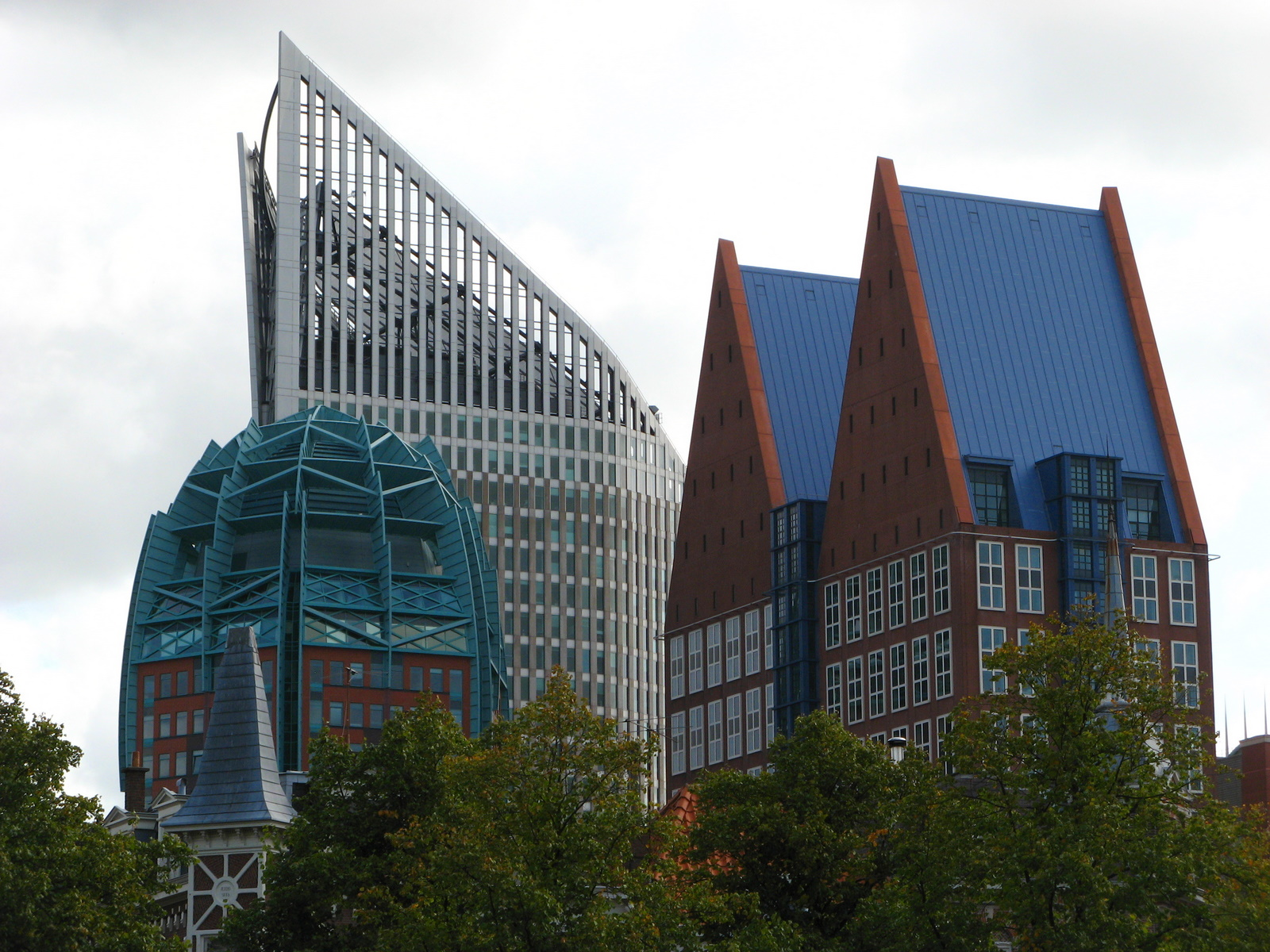 The Hague